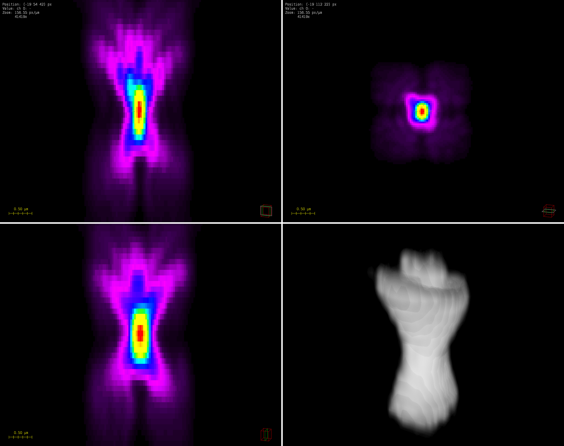 An example of an experimentally derived point spread function from a confocal microscope using a 63x 1.4NA oil objective. It was generated using Huygens Professional. Shown are views in xz, xy, yz and a 3D representation. The images used to generate the PSF were of 100nm beads and the wavelengths of light captured were 500-620nm.